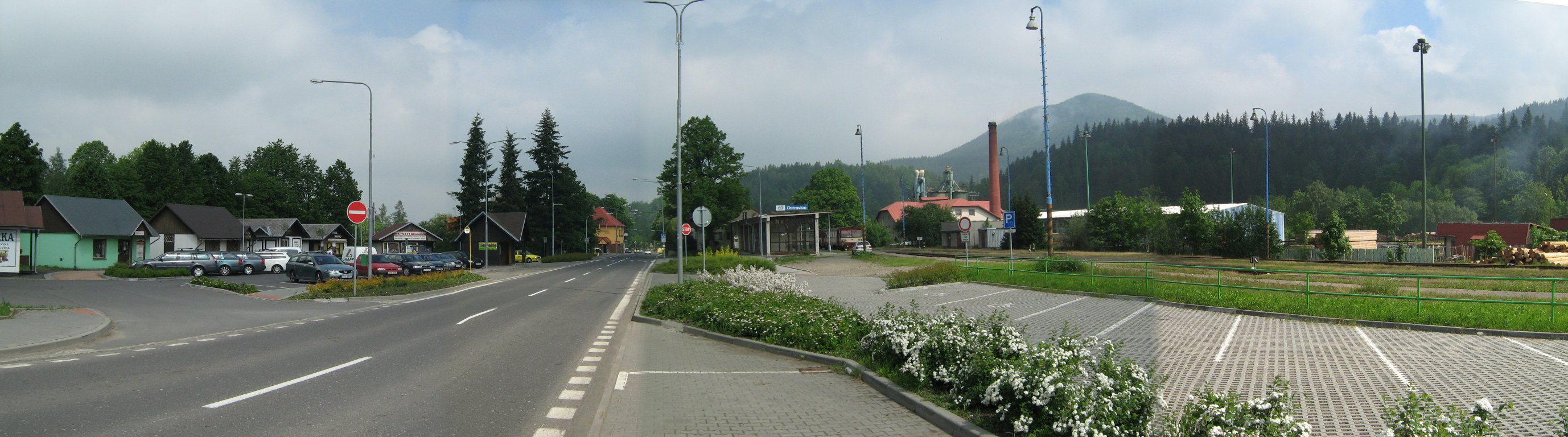 Panorama of Ostravice in Beskydy, CZ